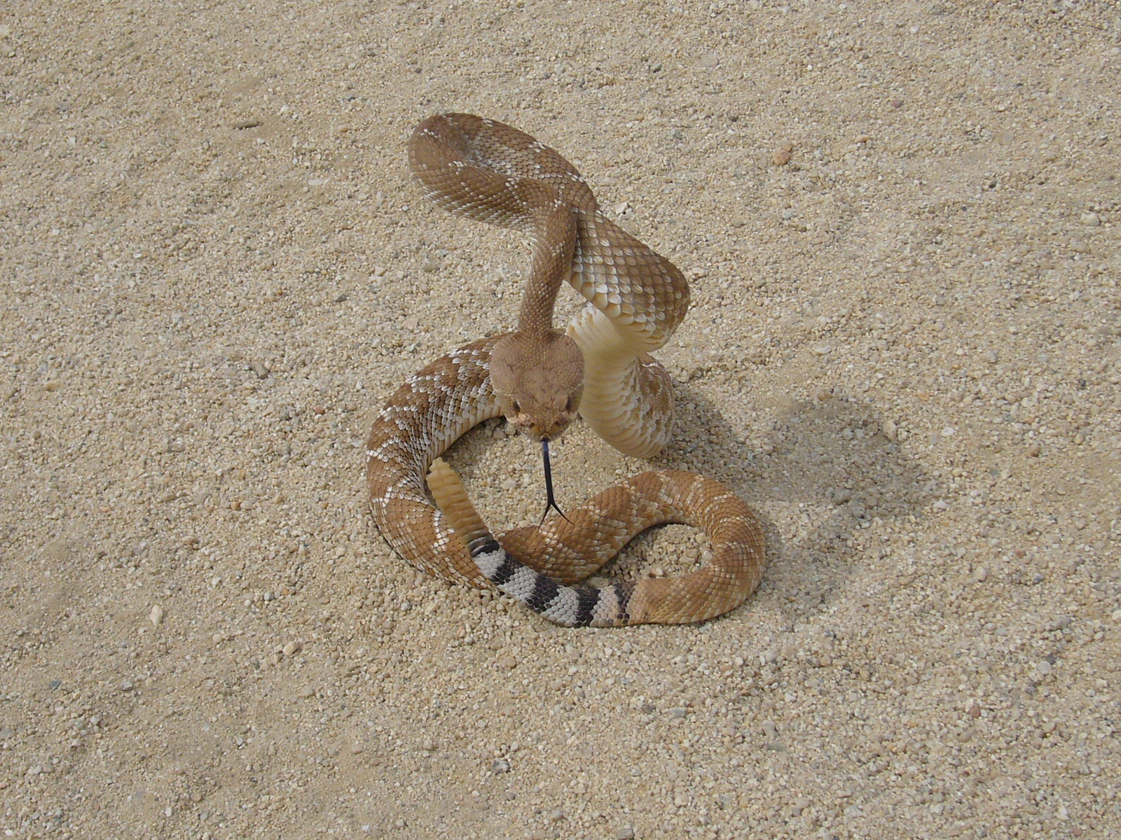 Threat display of a rattlesnake; along the Fish Creek road in Hapaha Flats.